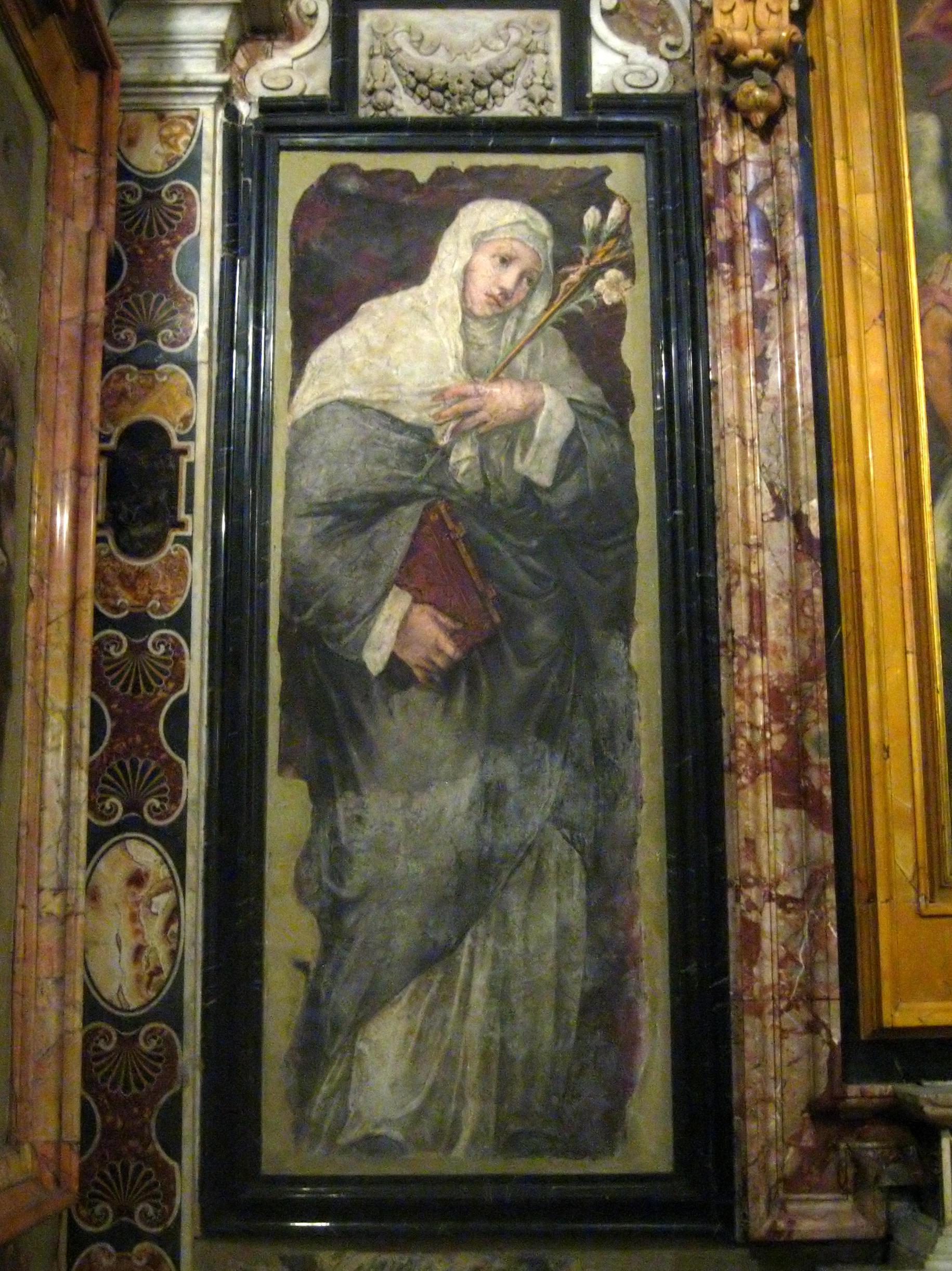 Holding her usual lily.